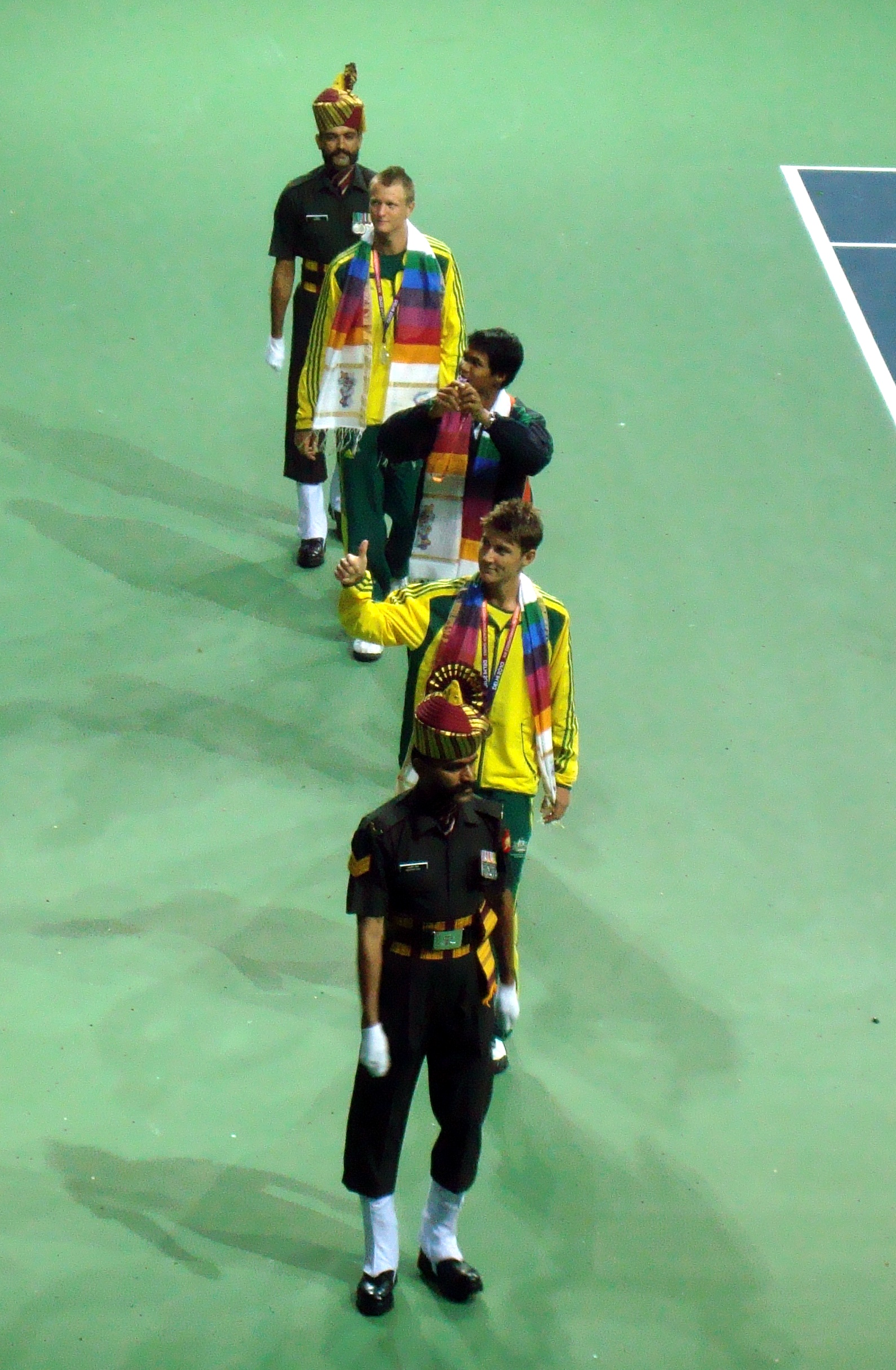 Victory lap of Tennis mens singles winners of Commonwealth Games 2010 at Delhi. Matthew Ebden of Australia (Bronze medal), Somdev Devvarman of India (Gold medal) and Greg Jones of Australia (Silver medal)